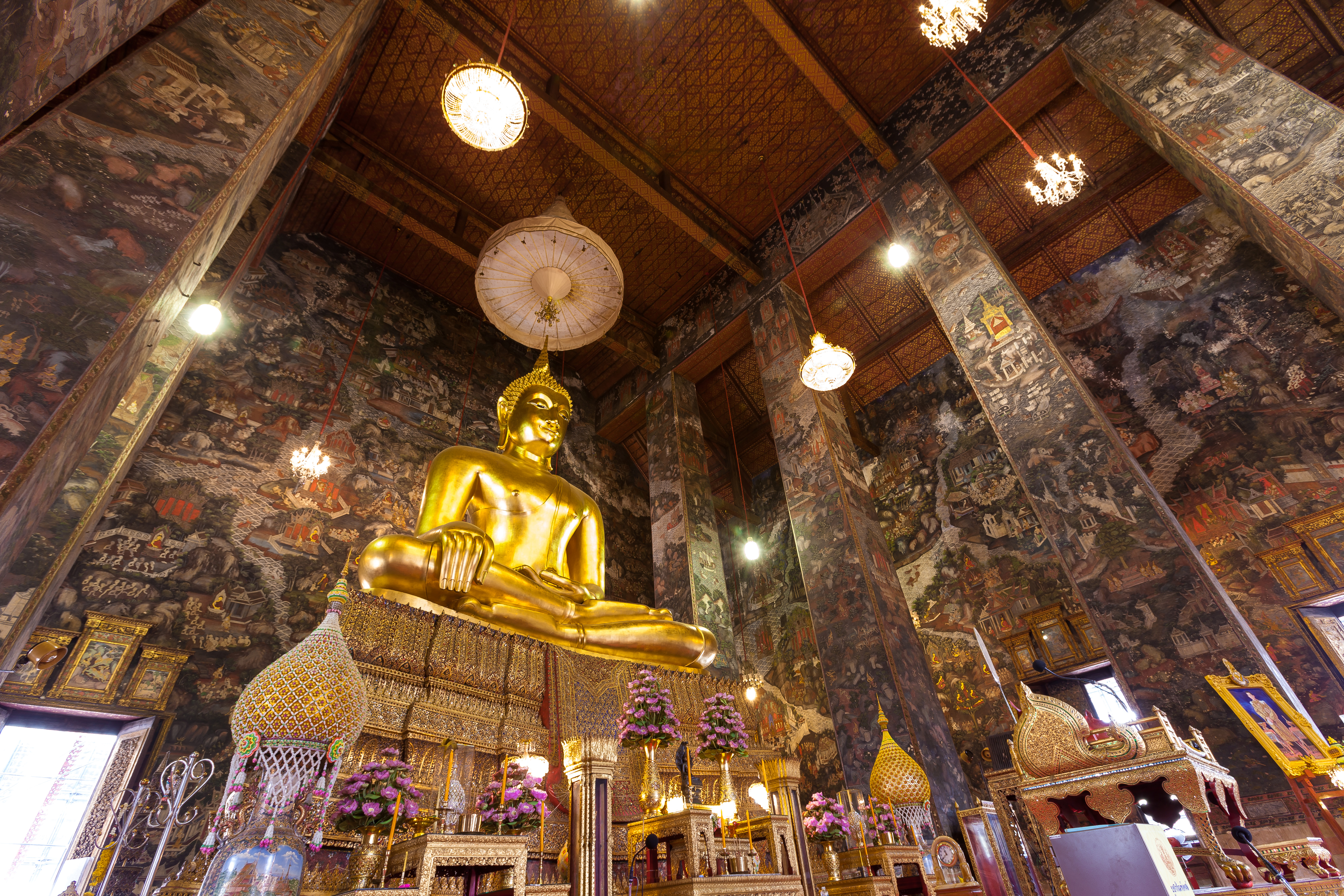 Phra Sri Sakayamunee in Wihan of Wat Suthat, Bangkok.